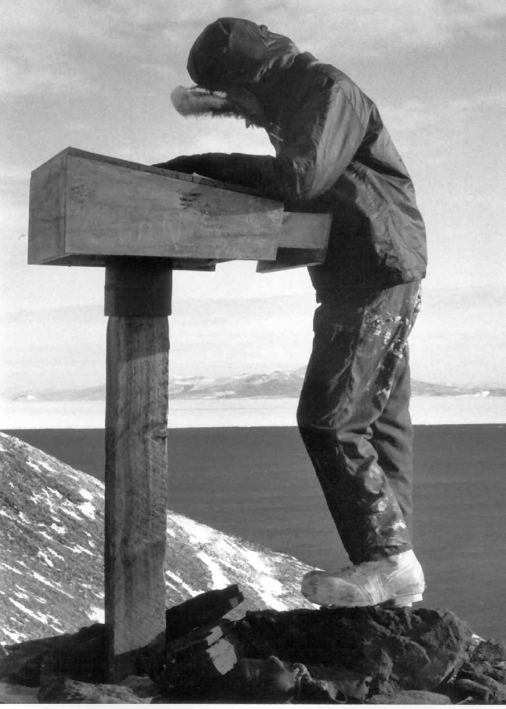 McMurdo Station, Antarctica. A seaman from the freighter USNS Southern Cross signs the summit registry at Observation Hill. Open water of McMurdo Sound in the middleground gives way to pack ice and distant Mount Discovery of the Royal Society Range.